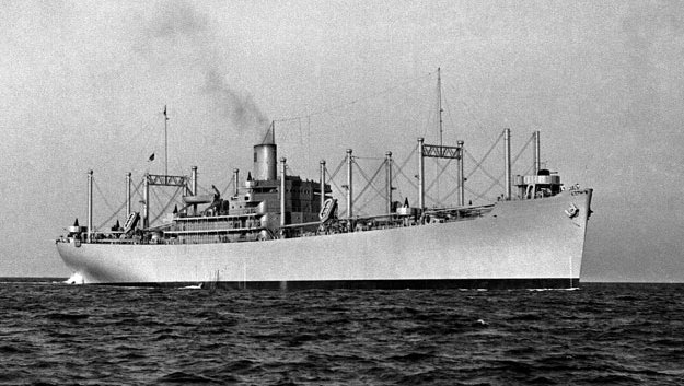 SeaTarpon C3 Cargo Ship